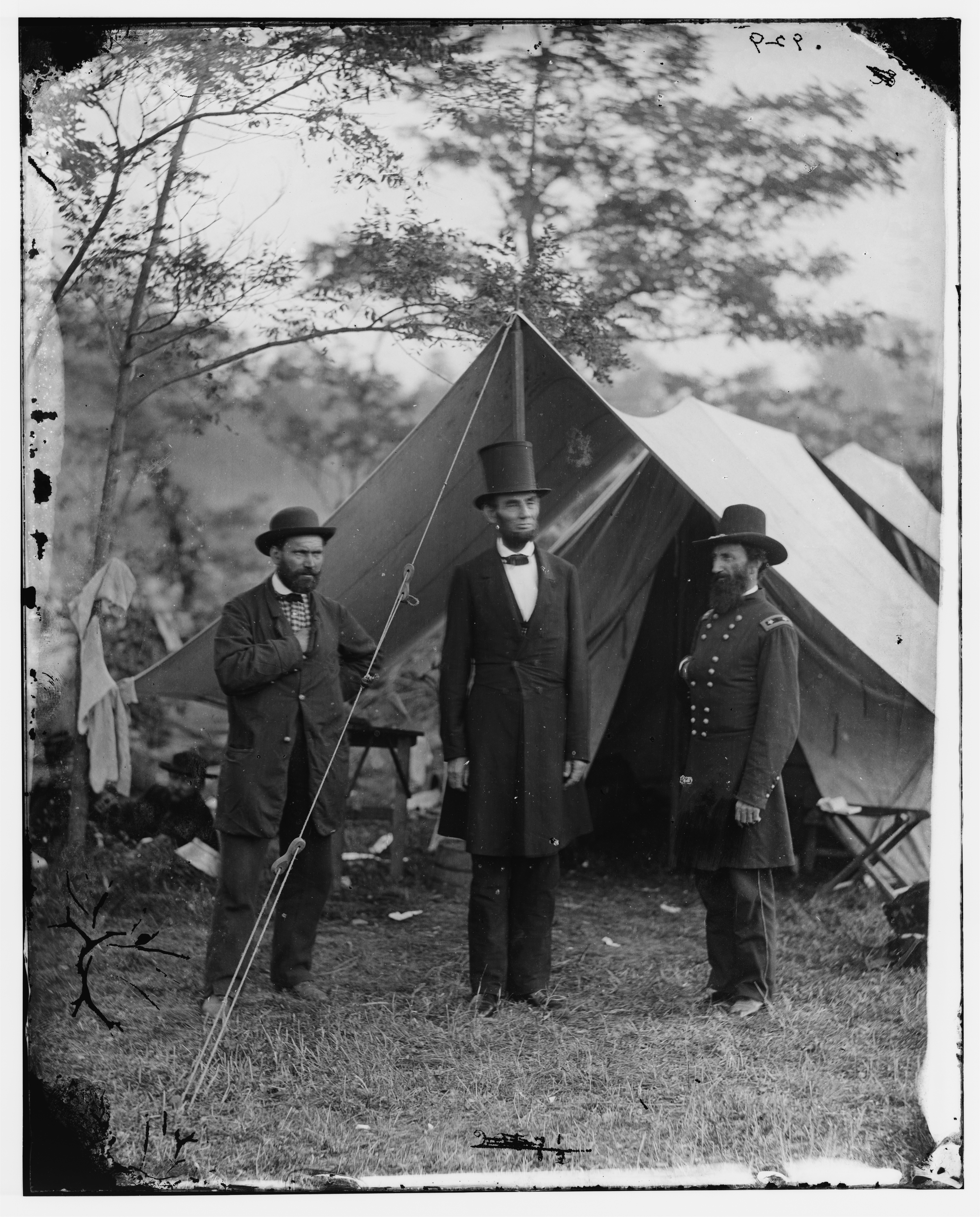 Allan Pinkerton, President Abraham Lincoln, and Major General John Alexander McClernand. Pinkerton was the head of Union Intelligence Services at the time. He also, allegedly, foiled an assassination attempt against Lincoln. His wartime work was critical in Pinkerton’s development, which he later used to pioneer the American private detective industry when he formed the Pinkerton National Detective Agency.